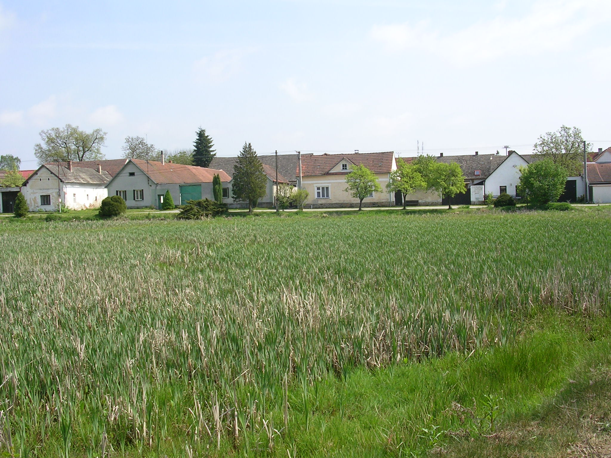 Kardašova Řečice-Nítovice, South Bohemian Region, the Czech Republic.